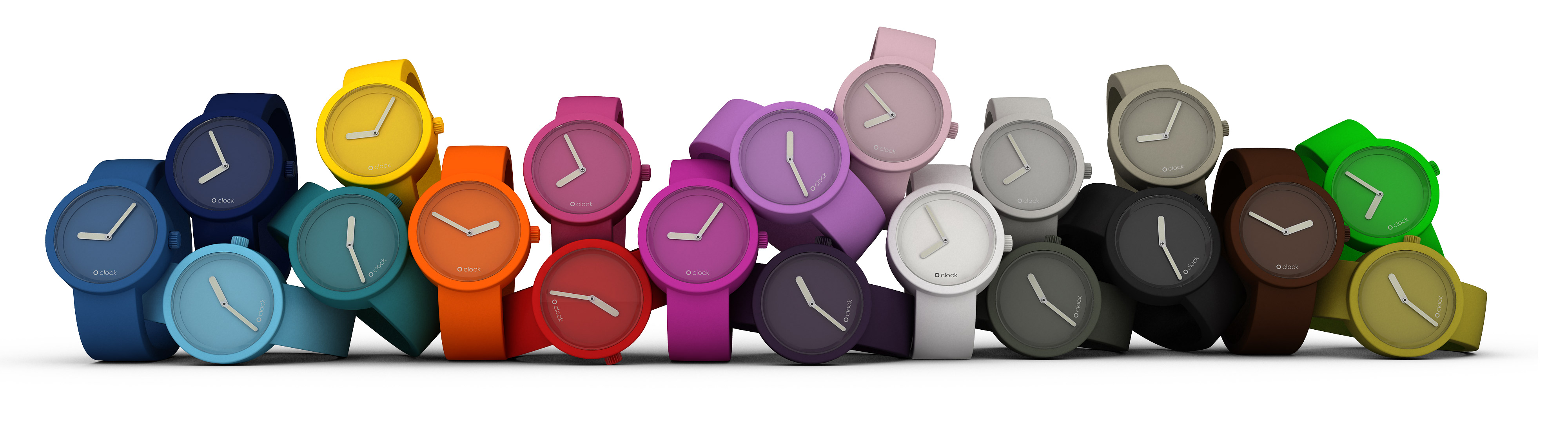 Full range of Fullspot's O clock Tone on Tone collection